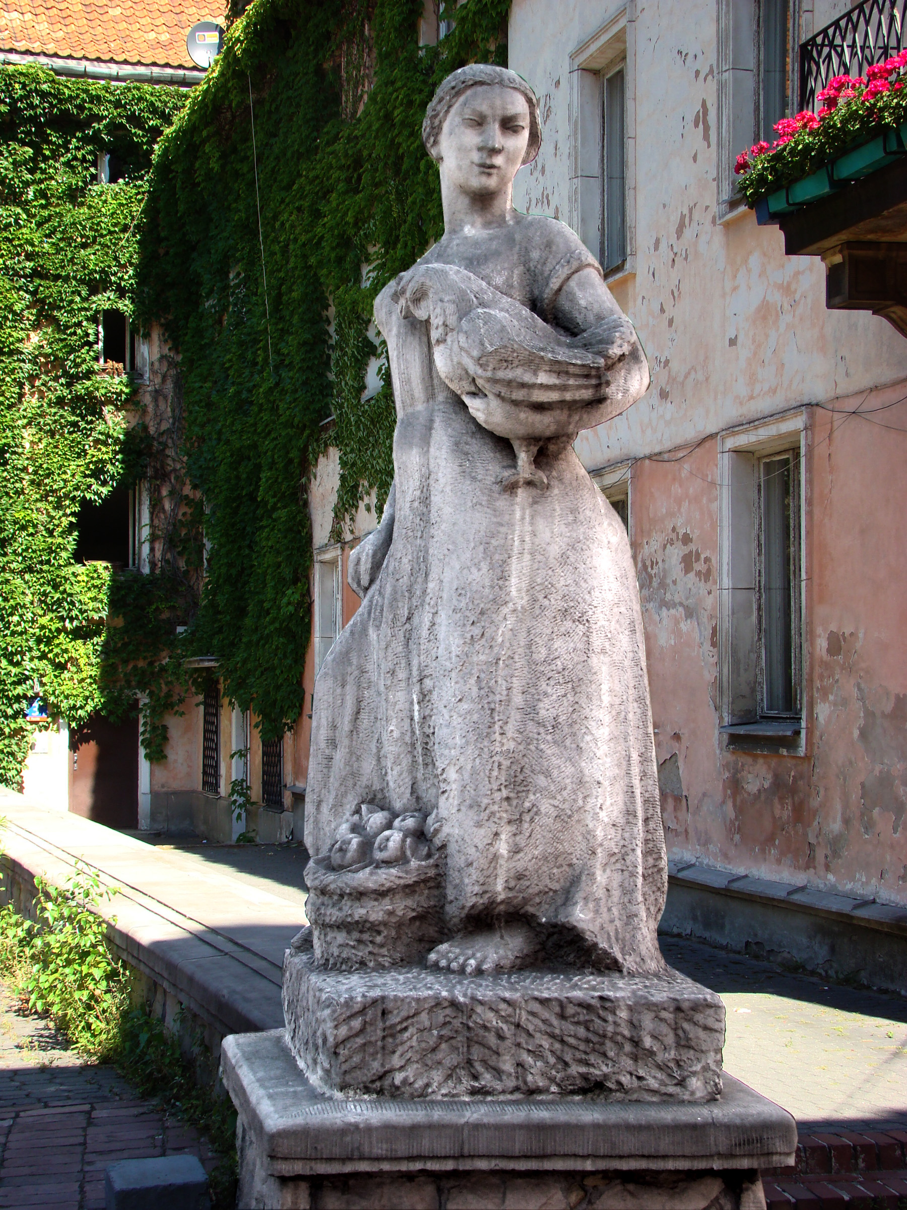 Warsaw tradeswoman with a hen